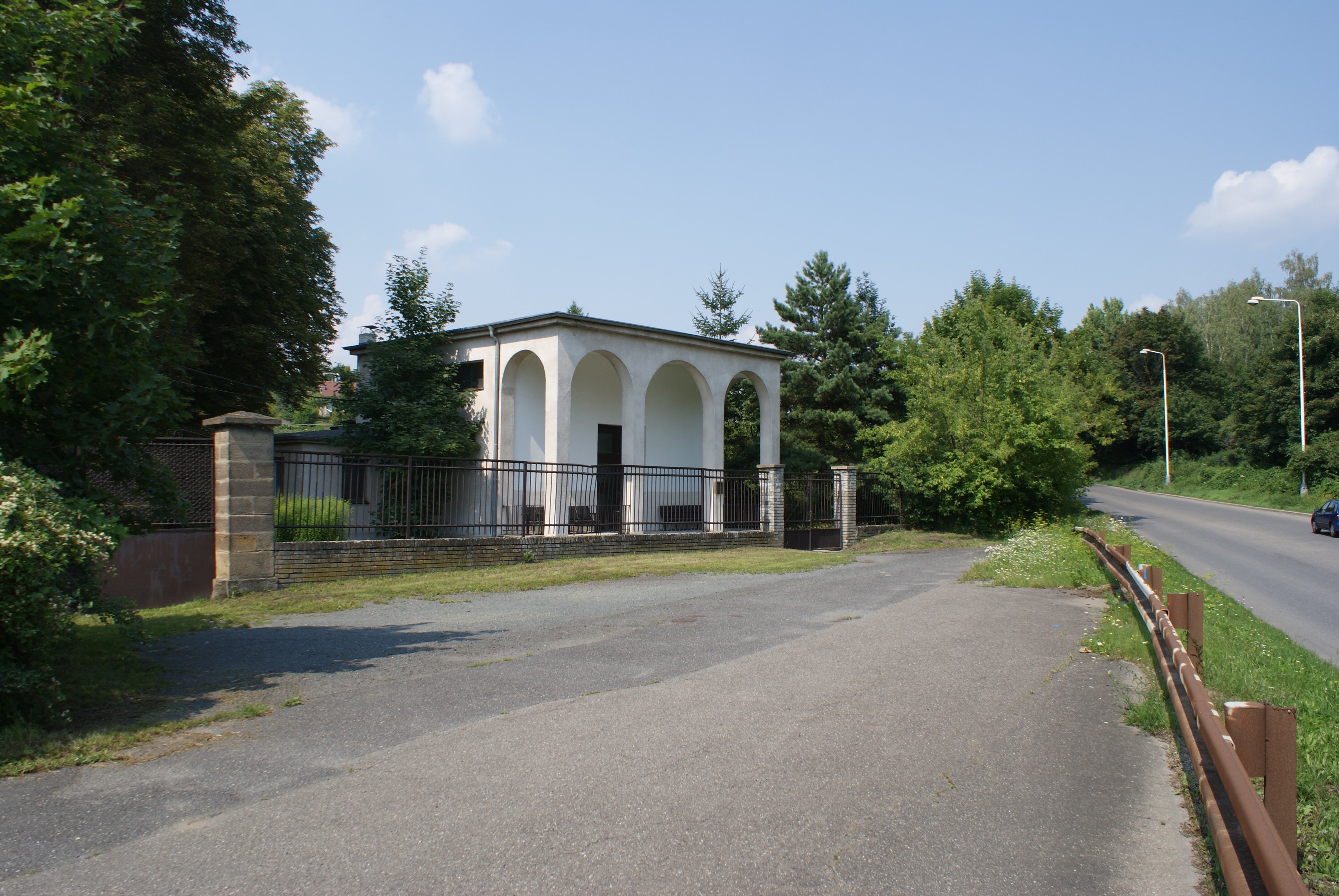 Jewish cemetery in Kladno, a town in Central Bohemian region, Czech Republic.